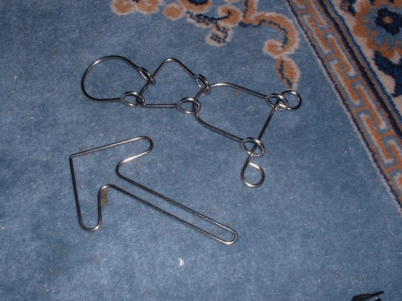 A wire puzzle in disassembled form. Taken by User:aarchiba.